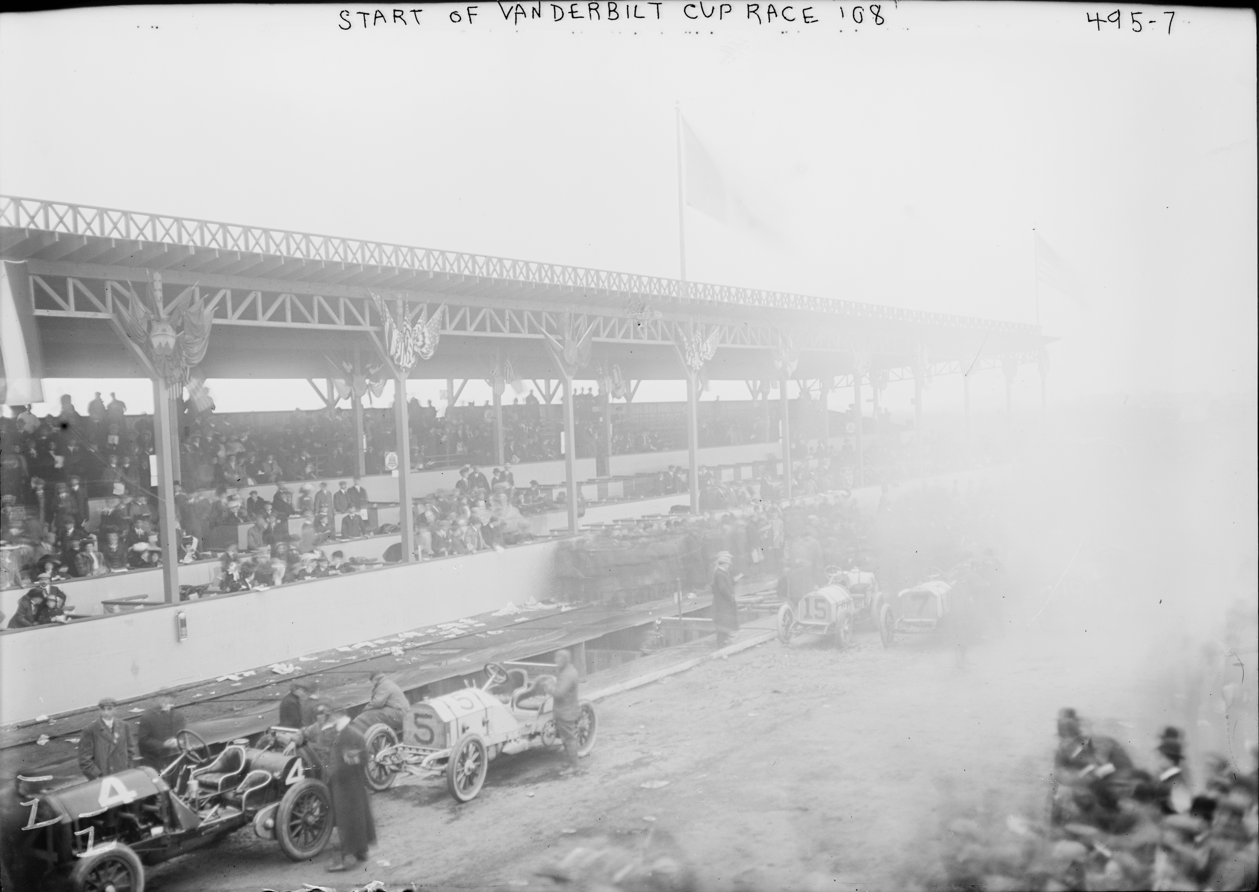 1908 Vanderbilt Cup race grid before the race. Visible are #4 Willie Haupt on Chadwick, #5 William Luttgen on Mercedes, and #15 Louis Chevrolet on Matheson wo became 16th after a cylinder cracked at lap #2.